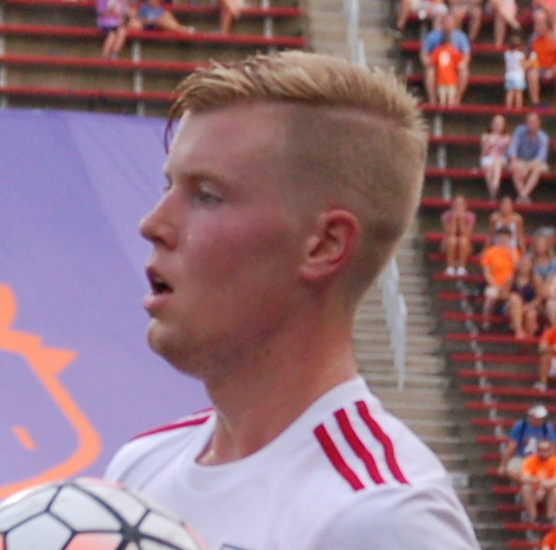 Justin Bilyeu (NY) Taken during a match between FC Cincinnati and New York Red Bulls II at Nippert Stadium in Cincinnati, USA on July 20, 2016.